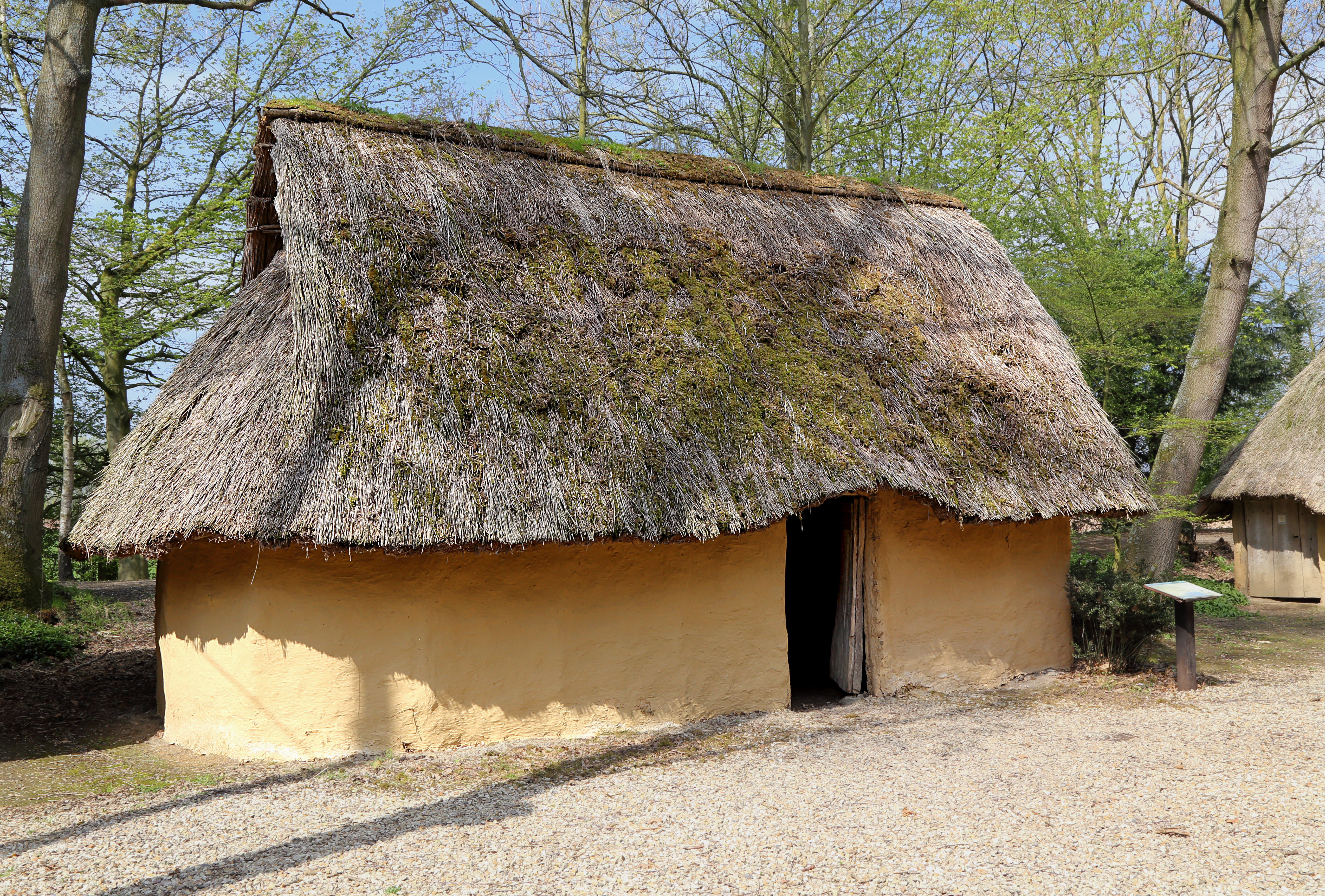 Gallic house, 1st century BC, in the Archeosite of Aubechies, Belgium.